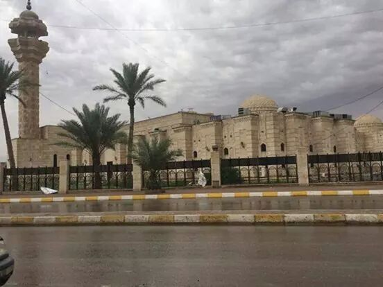 محافظة صلاح الدين في تكريت